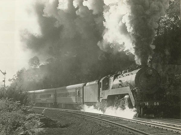 NSWGR C38 Class Locomotive 3808